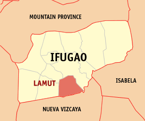 Map of Ifugao showing the location of Lamut